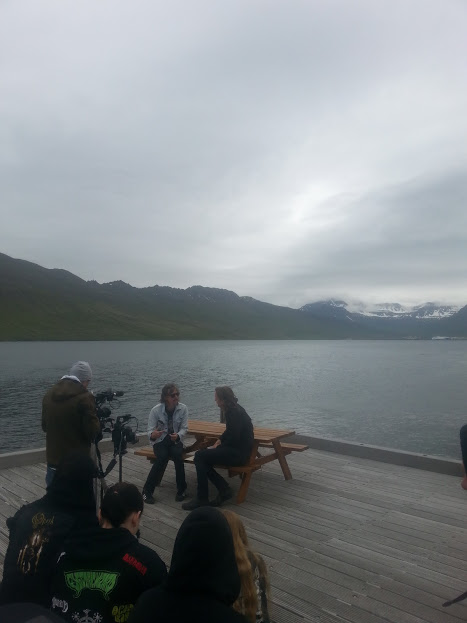 Sam Dunn interviews Opeth mainman.